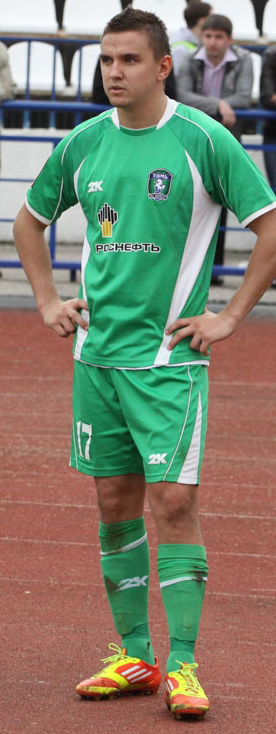 Andrei Ivanov with FC Tom Tomsk